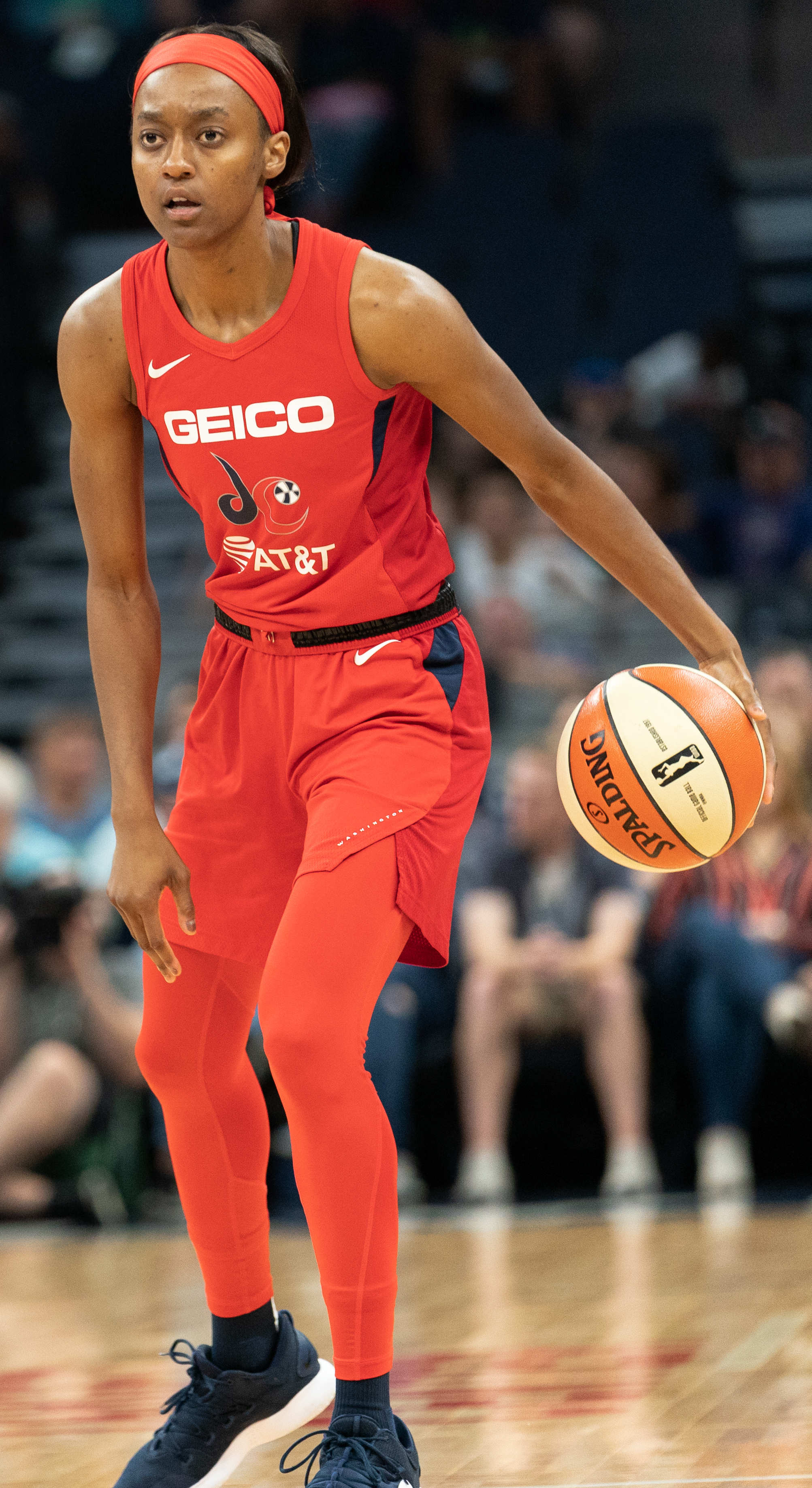 Shatori Walker-Kimbrough (with the ball) guarded by Minnesota Lynx player Danielle Robinson